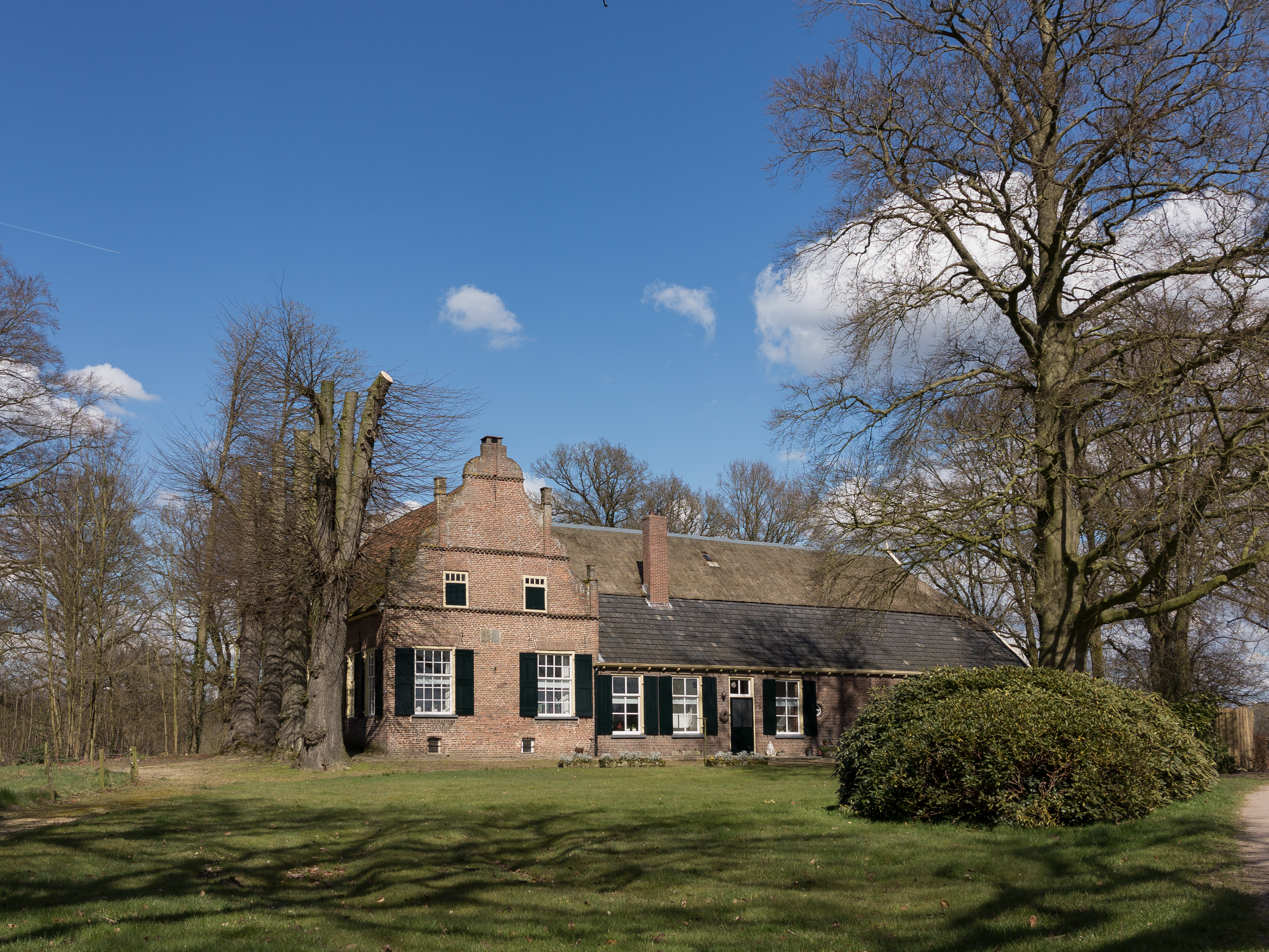 Voorst, camping-farmer house: de Adelaar